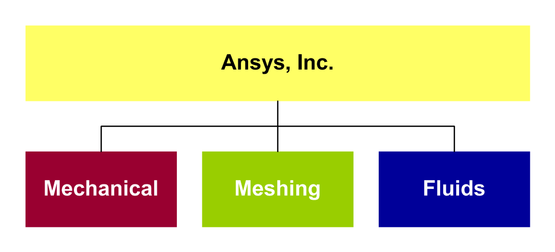 Ansys,Inc. Divisions (NASDAQ:ANSS)